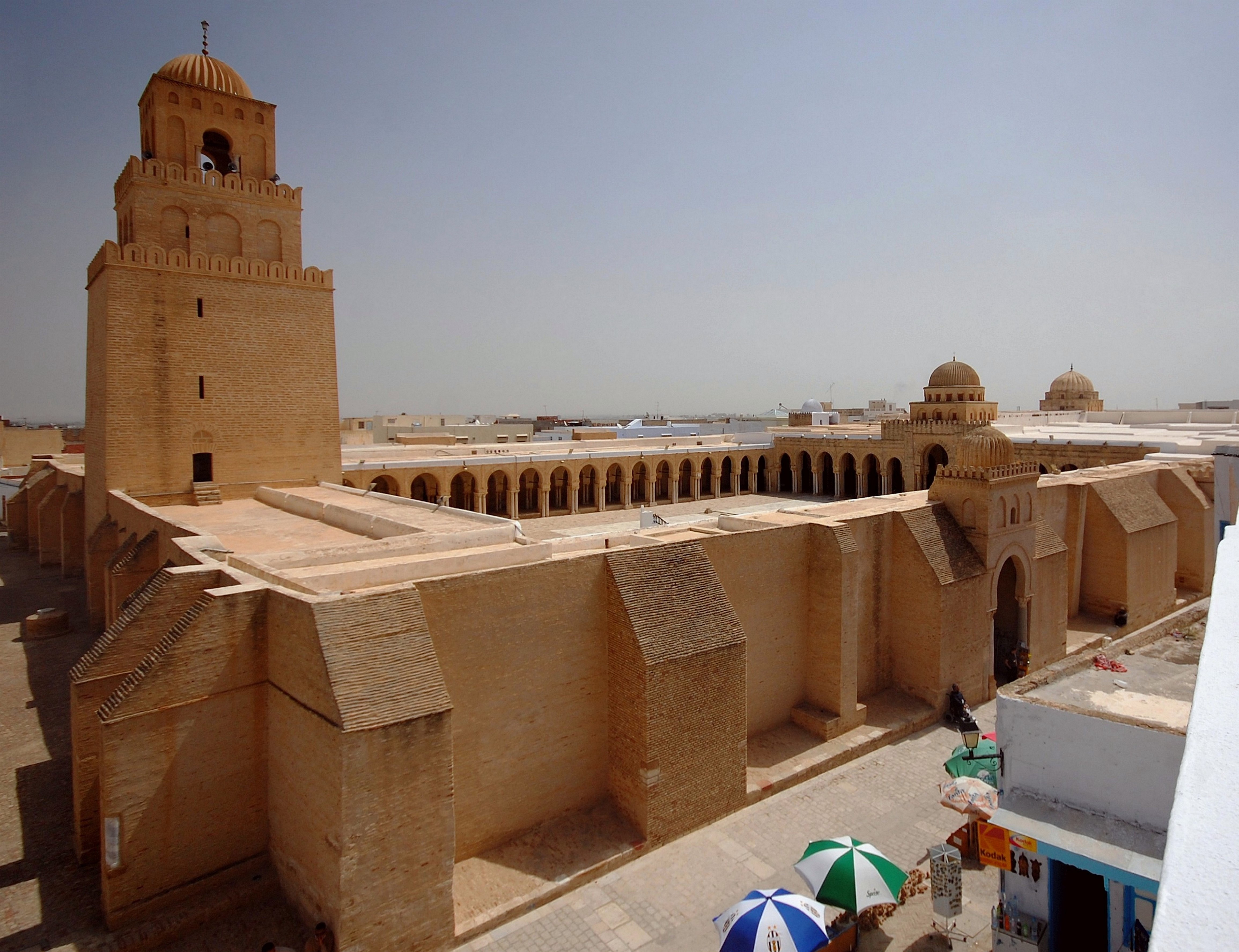 Overview of the Great Mosque of Kairouan (in Tunisia). This mosque, also called the Mosque of Uqba, extends over an area of about 9,000 square meters. Founded in 670 AD by the Arab general Uqba ibn Nafi, it dates, in its present form, from the 9th century. Besides the fact of being the oldest mosque in the Muslim West, the Great Mosque of Kairouan is a remarkable example of North African Islamic architecture.